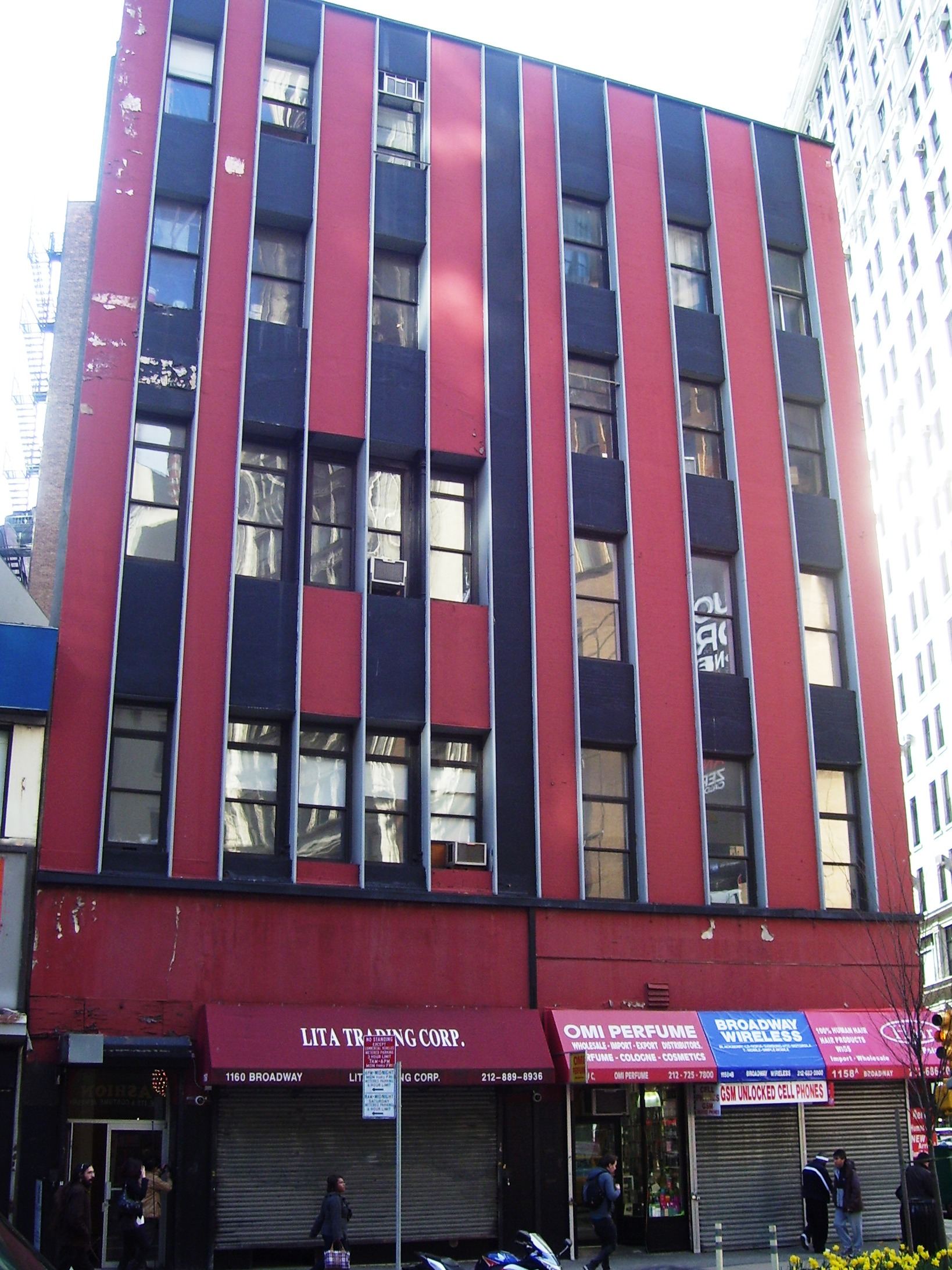 1158 (right) and 1160 (left) Broadway, at the corner of West 27th Street in the NoMad neighborhood of Manhattan, New York City, were built in 1880-81 and 1871 respectively, but were combined together in 1959 with a common aluminum and painted brick facade by Telchin & Campanella which removed almost all vestiges of the original architecture. #1158 was originally designed by Joseph Stroud, and #1160 by Richard Morris Hunt. They are both located within the Madison Square North Historic District. (Source: "NYCLPC Madison Square North Historic District Designation Report")